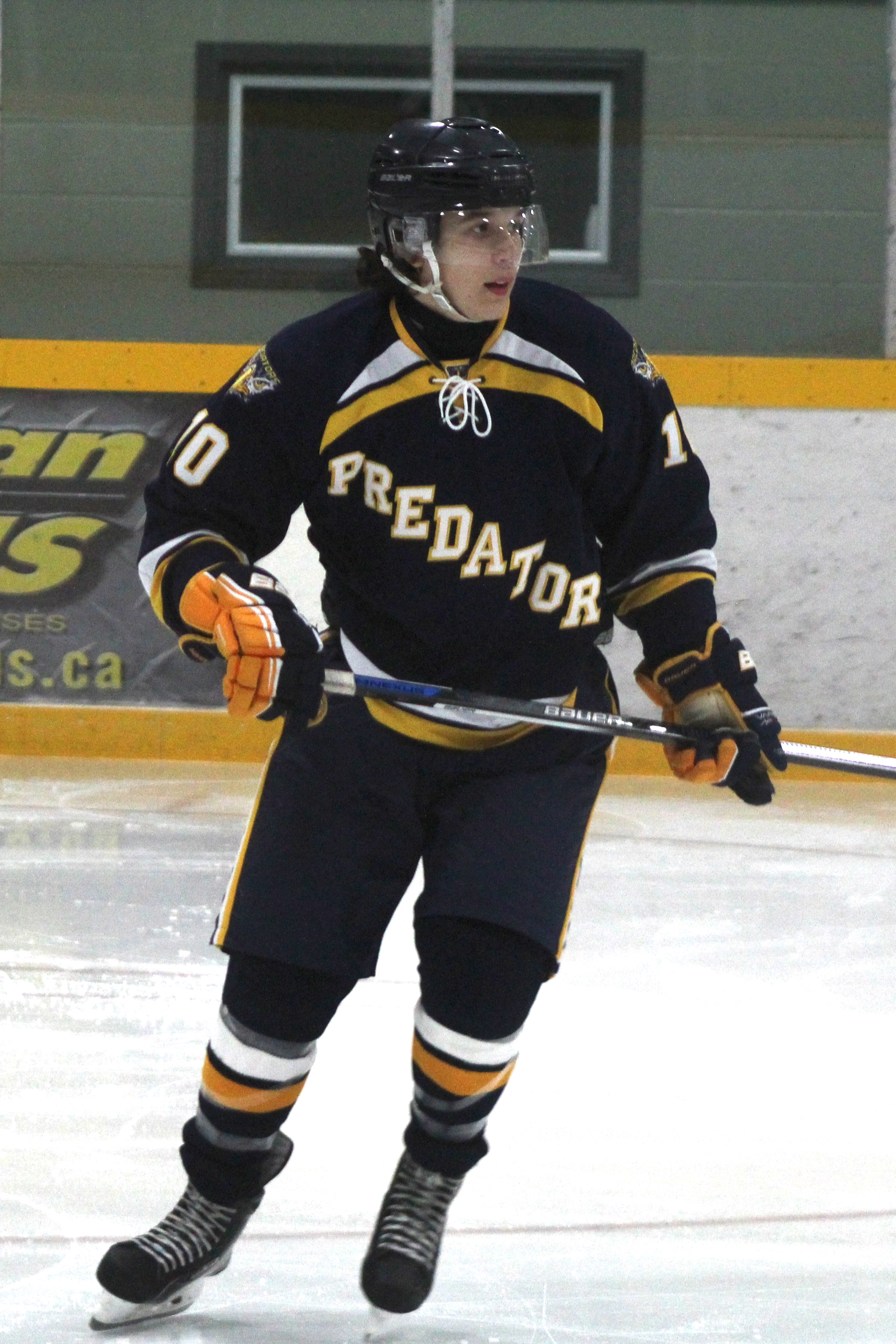 These images of GMHL Action action during the 2015-16 season are taken by Devan Mighton.